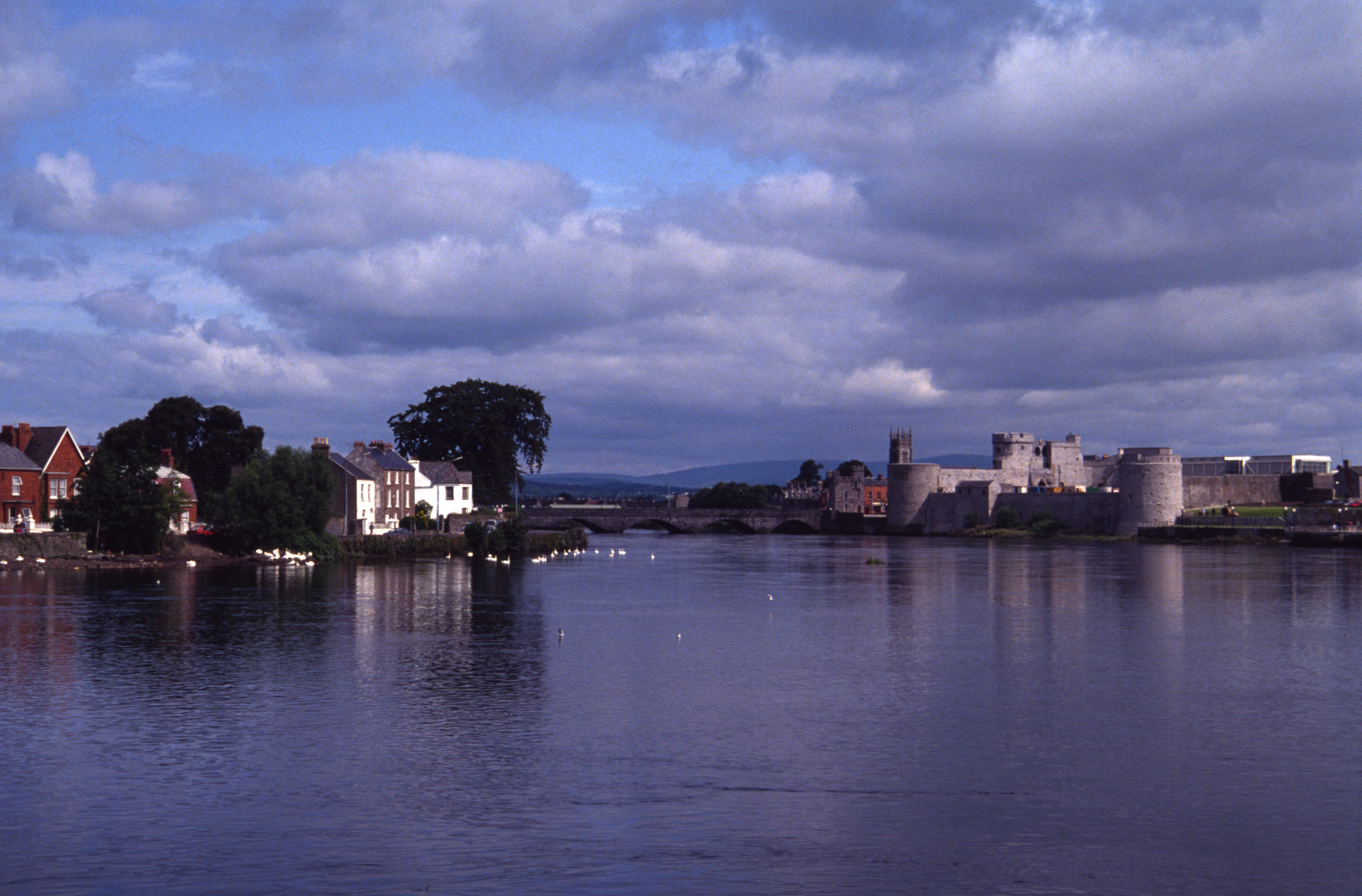 Limerick, Ireland